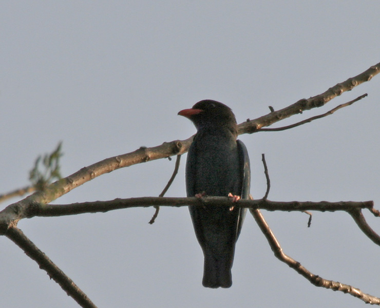 Dollarbird or Broad-billed Roller Eurystomus orientalis at Jayanti in Buxa Tiger Reserve in Jalpaiguri district of West Bengal, India.